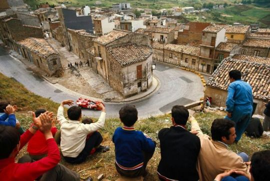 Collesano curva at Targa Florio on 3 May 1970. Nino Vaccarella and Ignazio Giunti approaching in their 1970 Ferrari 512 S s/n 1012. They ended in 3rd place overall and WON their class.[1]